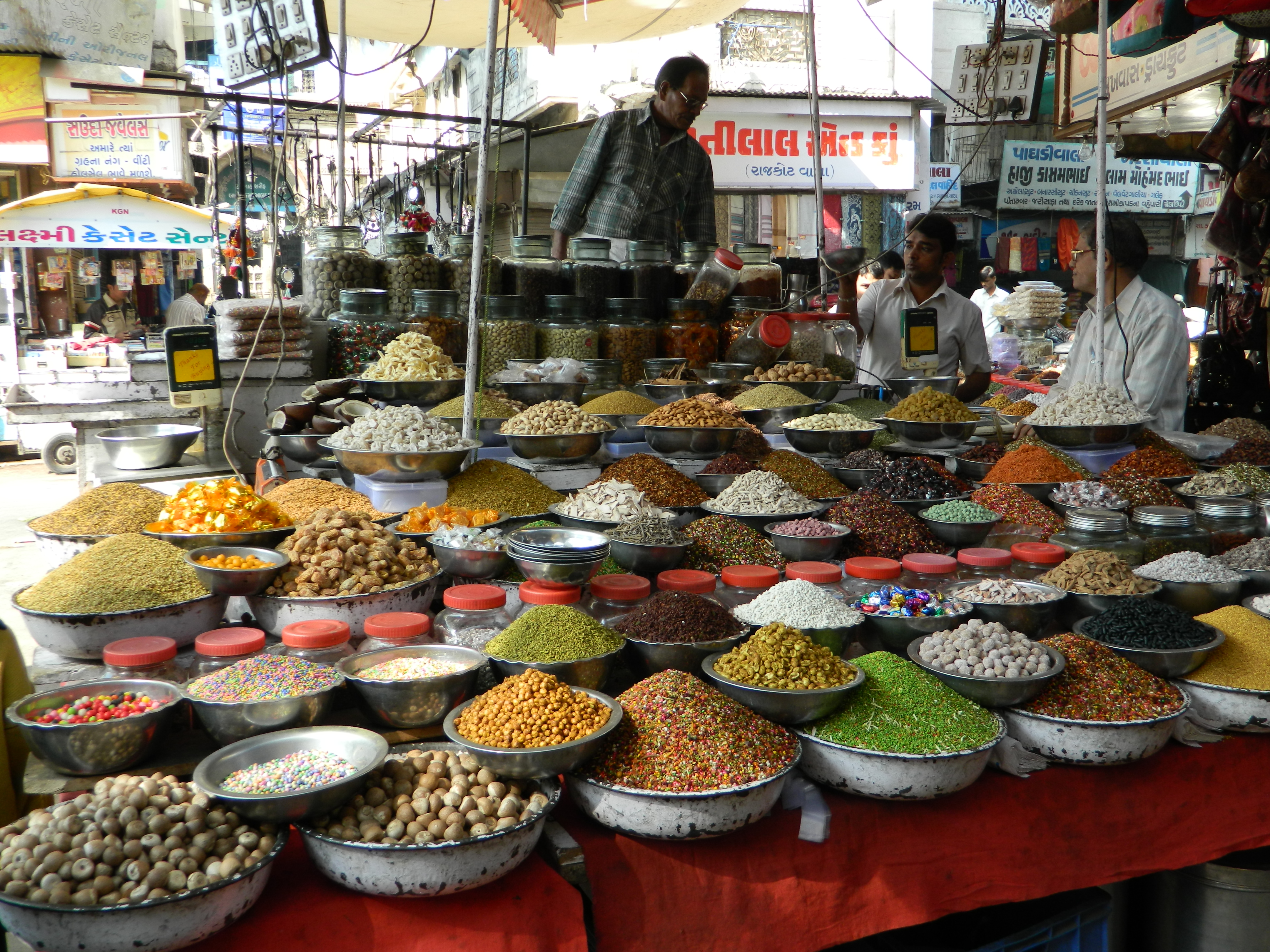 A wide variety of mukhwas is available at Manek Chowk